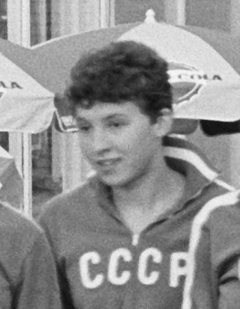 4x100 m medley podium, 1966 European Championships Tatyana Devyatova